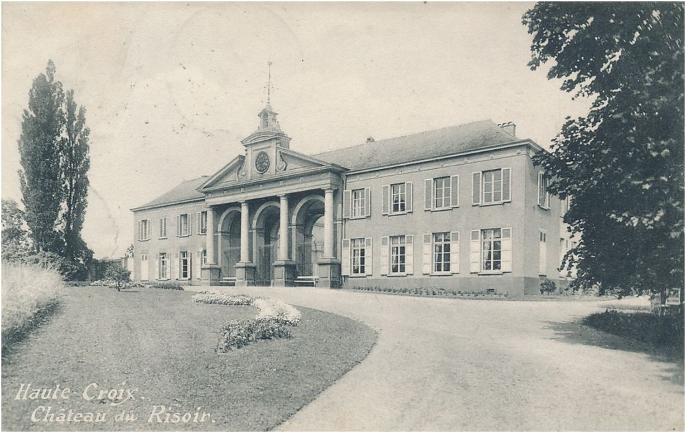 Castle "Ter Rijst" in Heikruis (Belgium)